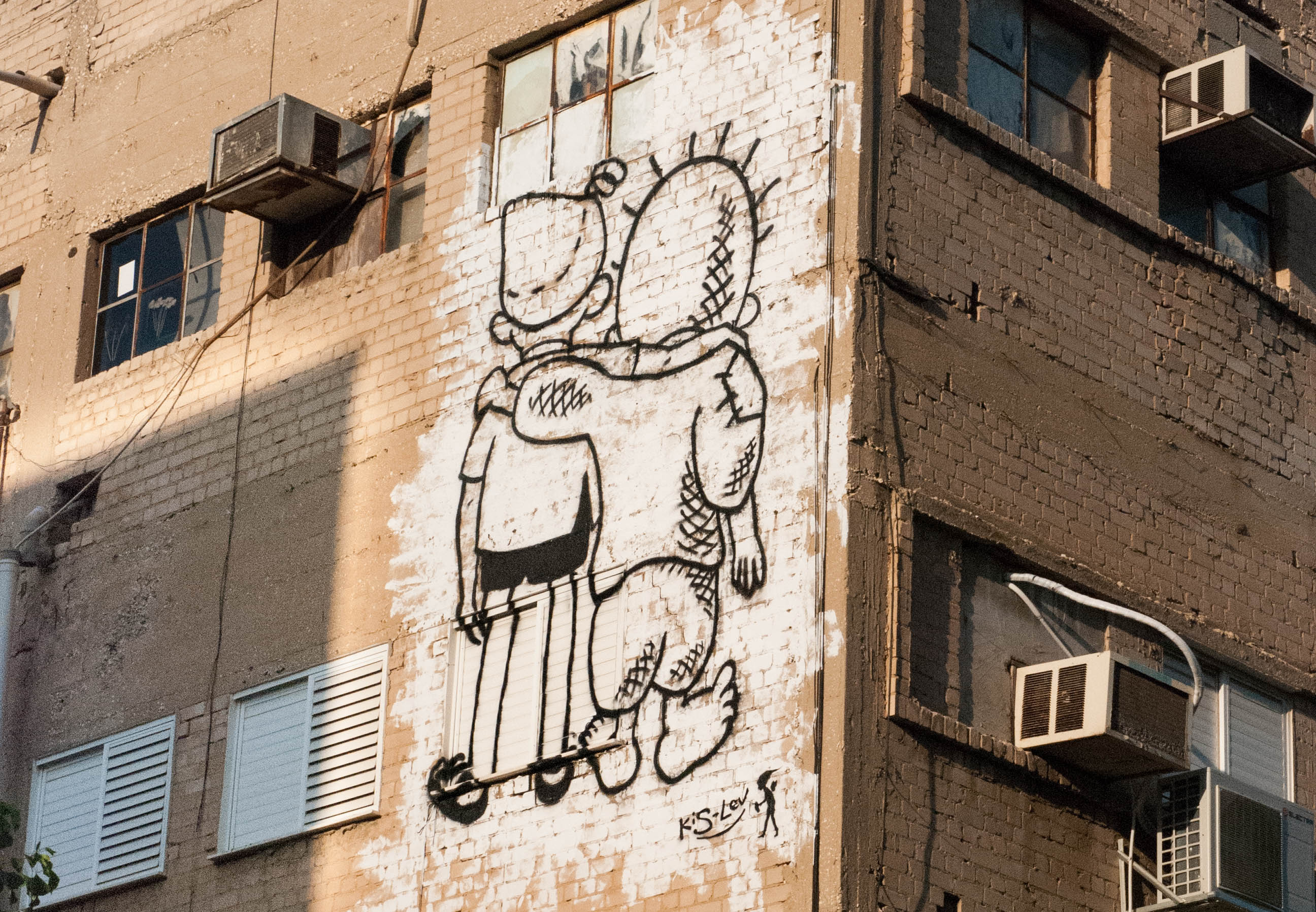 Graffiti Tel Aviv, Ha-Rav Yitskhak Yedidya Frenkel St - close up